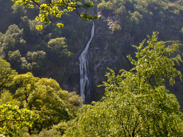 Powerscourt Waterfall, near Enniskerry, County Wicklow.